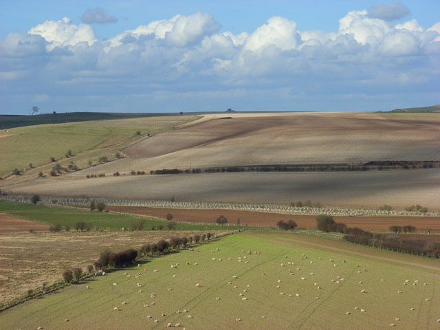 The Berkshire Downs between Lambourn and Ashbury The view from Near Down of the mixed farmland near Ashdown House. The lower half of the picture is in SU2980. The B4000 passes just above the brownest field. Within the ploughed field on the opposite hillside a small valley is visible. This is at roughly SU291813. Weathercock Hill is on the skyline to the left.